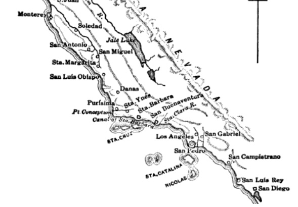 California 1846